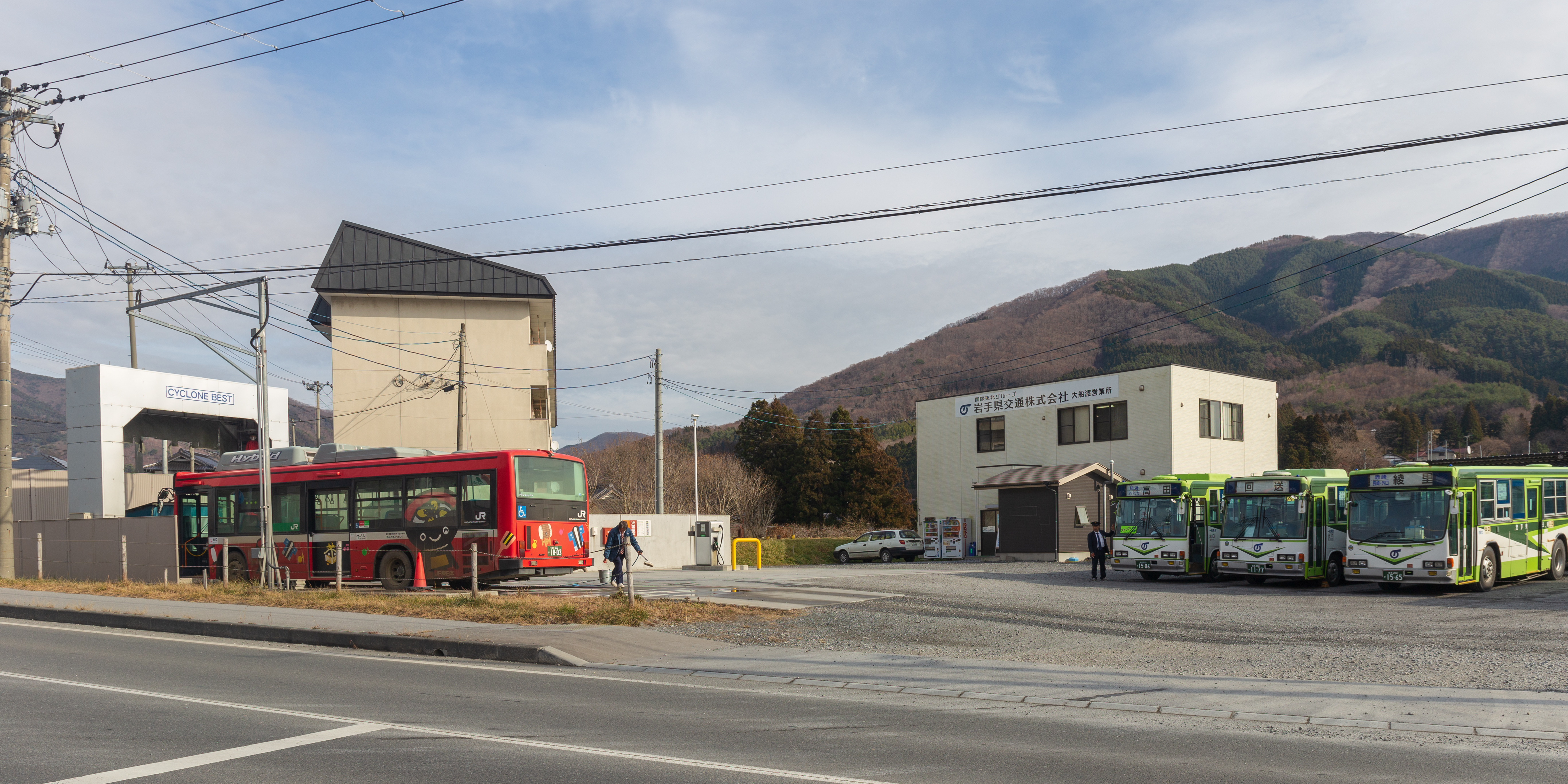 Iwateken Kotsu Ofunato Depot in Ofunato City, Iwate Prefecture, Japan